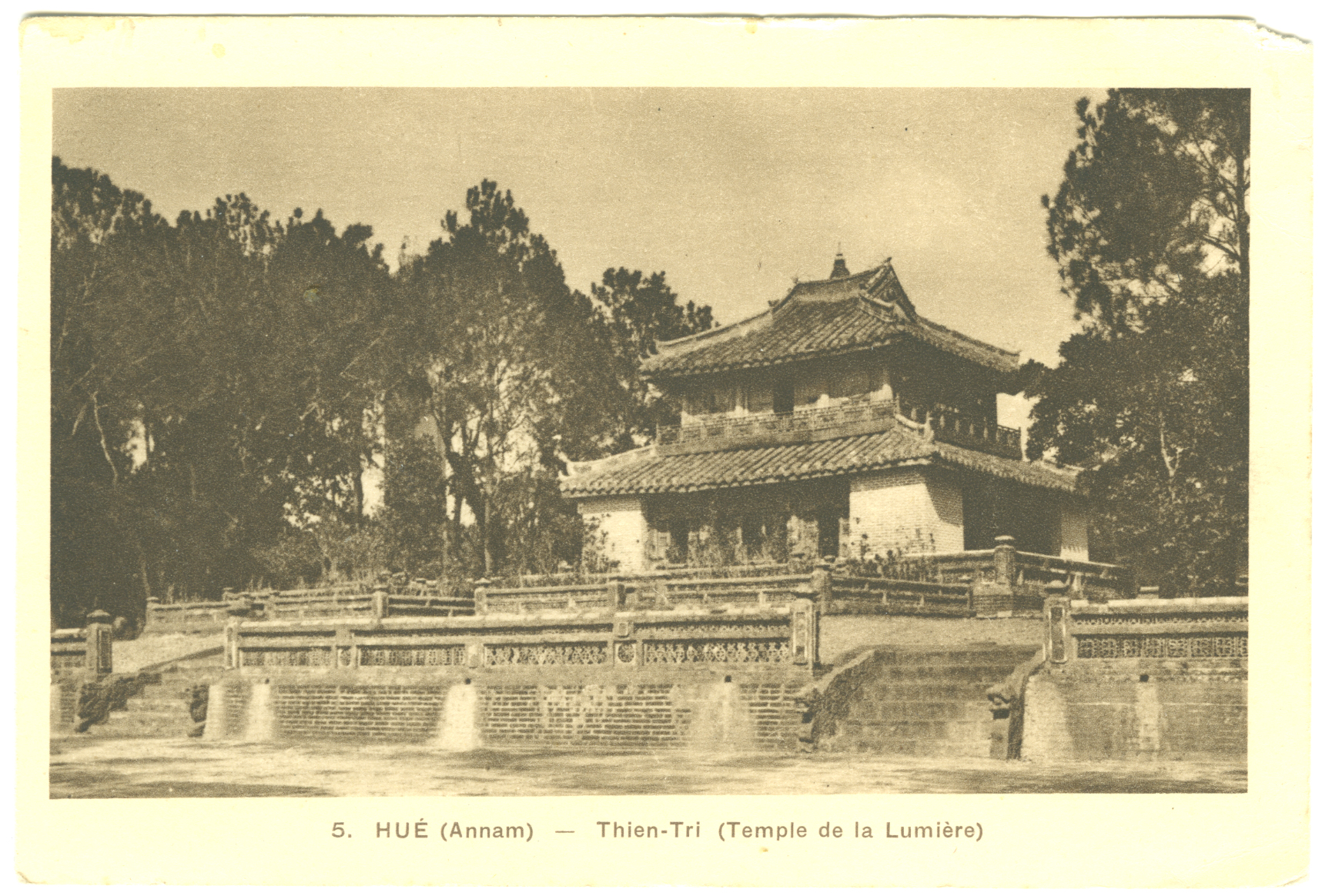 Đức Hinh pavilion (Lầu Đức Hinh). Constructed 1848. This pavilion is part of Emperor Thiệu Trị's tomb, situated between the Stele pavilion (Bi Đình) and the three bridges across the lake. Thiệu Trị's tomb is located near Huế, just a stone's throw South-West of Emperor Khải Định's tomb. The Đức Hinh pavilion is currently a ruin (this is what it looks like today: [1]). The Đức Hinh pavilion (Lầu Đức Hinh) could easily be confused with the Minh Lâu pavilion (Lầu Minh Lâu), which is part of Emperor Minh Mạng's tomb. The caption on this postcard is incorrect. This postcard was (according to the writing on the back) sent in 1931 - thus, the postcard is from 1931 or older.